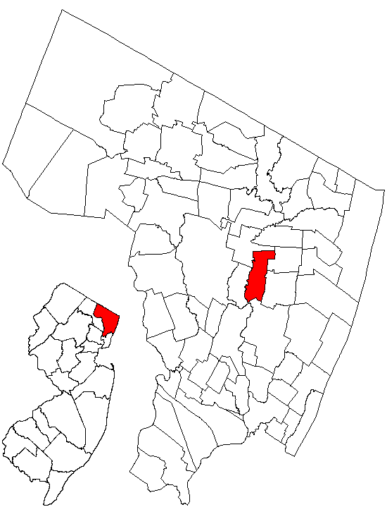 Location map for New Milford in Bergen County, New Jersey, USA